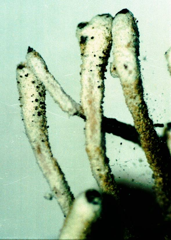 Cladonia macilenta var. bacillaris (Genth) Schaerer (photograph of a herbarium specimen taken through a dissecting microscope (x19) showing podetia covered with fine soredia) (Reactions: K-, P-) Growing on a fallen pine in Jack Pine Plains near Crumley Creek, off US-68, Cheboygan County, Michigan, USA; collected and identified by Richard E. Riefner (No. 81-456, 14 Jul 1981); specimen is now in the Lichen Herbarium of the New York Botanical Garden.